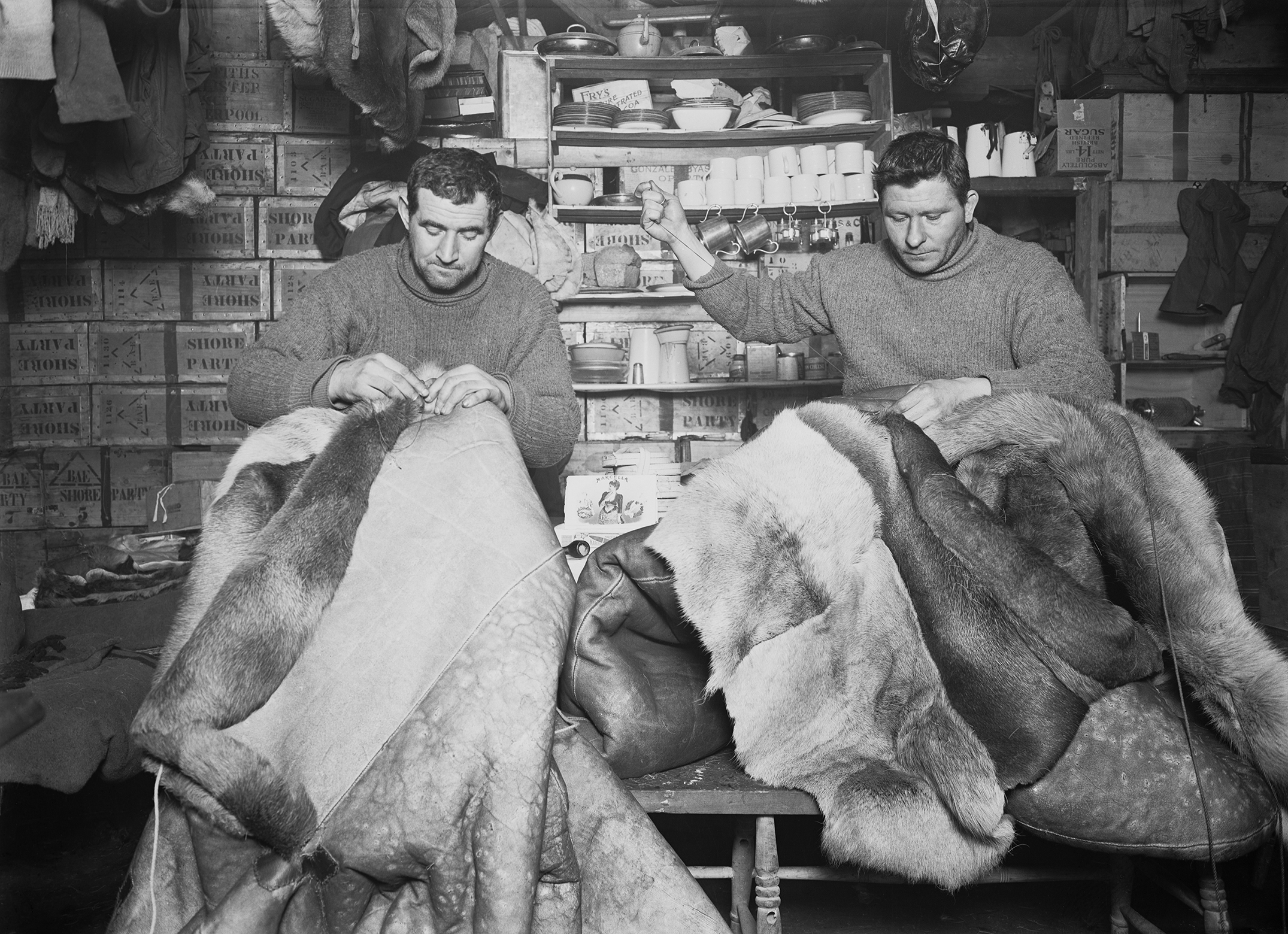 British Antarctic Expedition 1910-13. Petty officers Edgar Evans and Tom Crean mending sleeping bags. 16 May 1911.